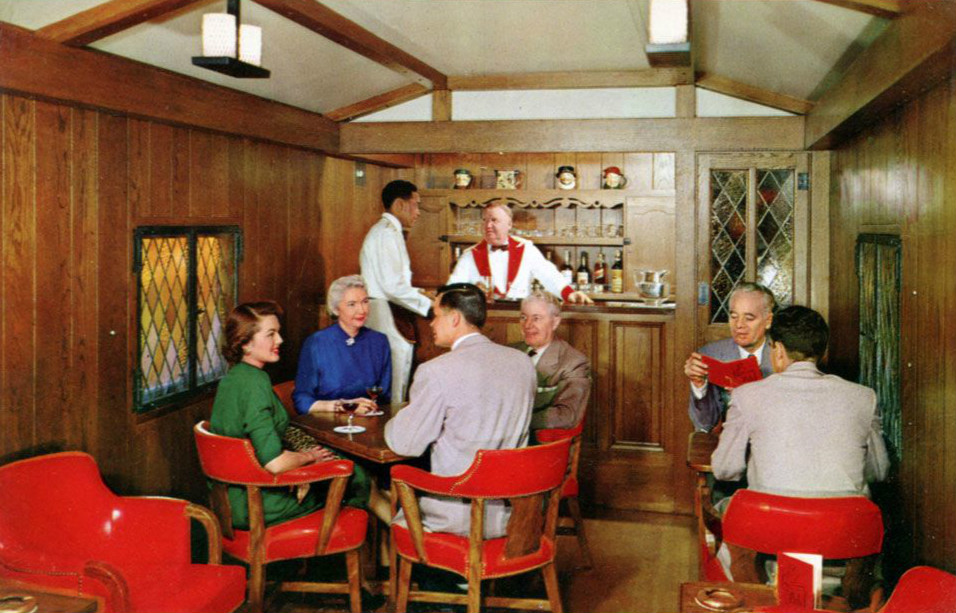 Postcard photo of the club/lounge car, "The Pub", of the Union Pacific streamliner "City of Denver".